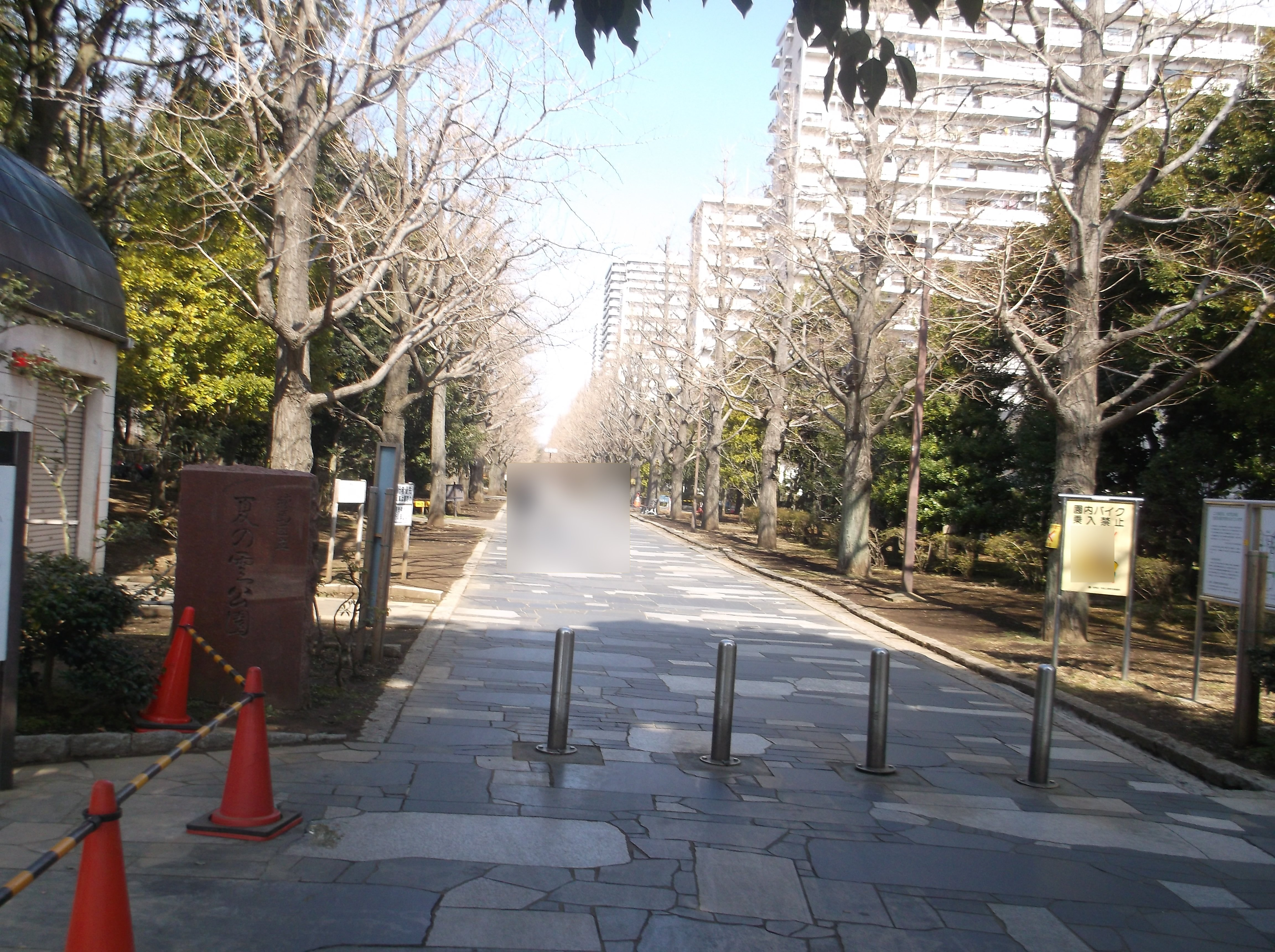 A photo of "Natsu no Kumo(summer's cloud) Park",Hikarigaoka,Nerima-ku,Tokyo,Japan.